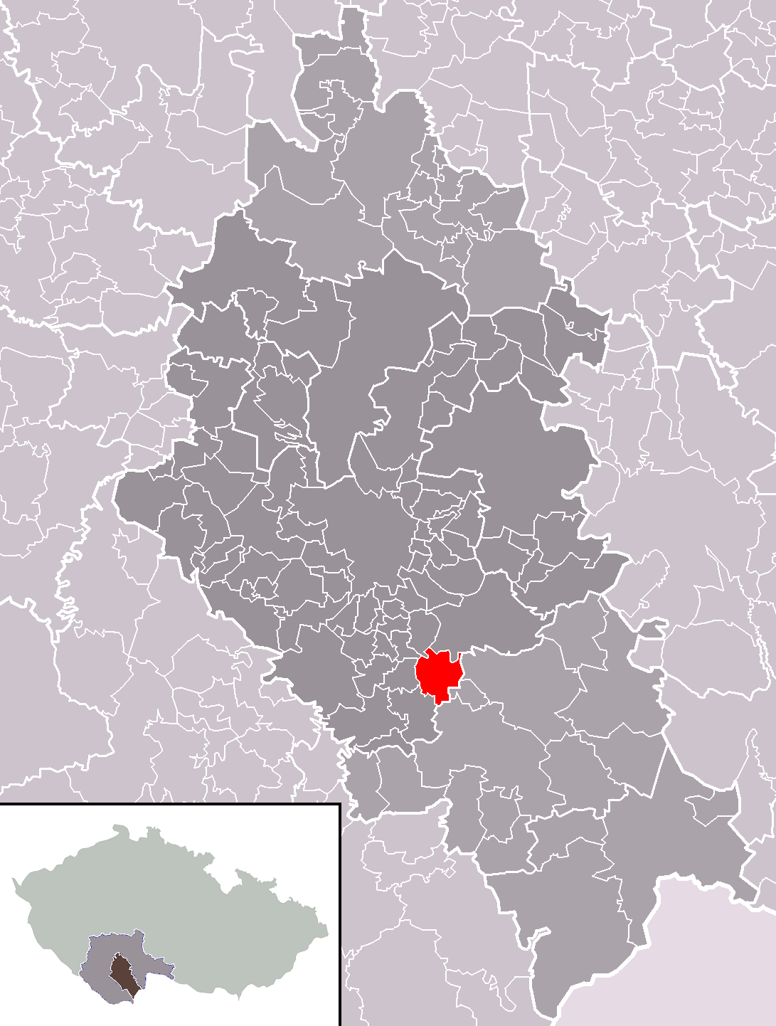 Location of Strážkovice municipality within České Budějovice District and administrative area of České Budějovice as a Municipality with Extended Competence.